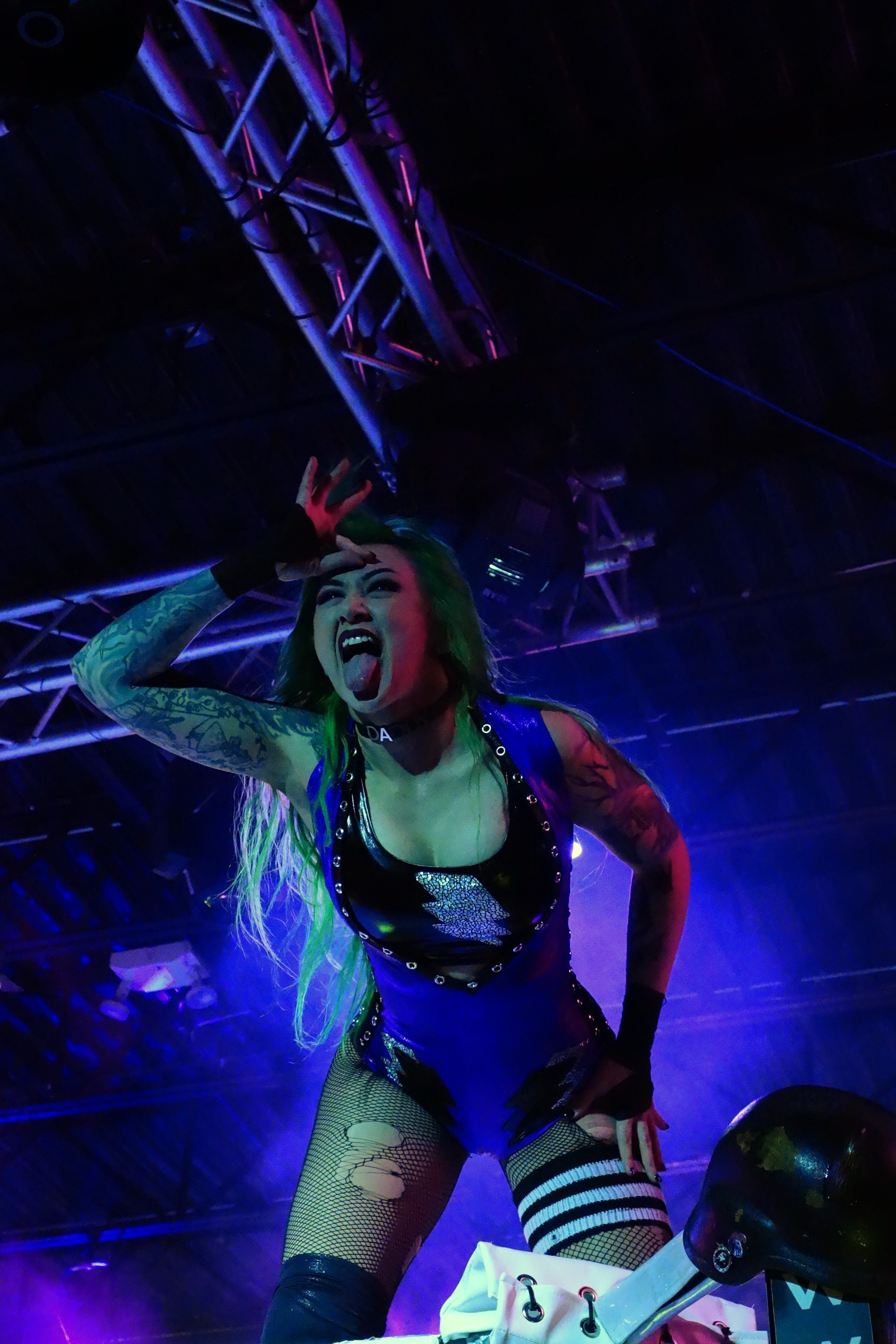 Shotzi Blackheart